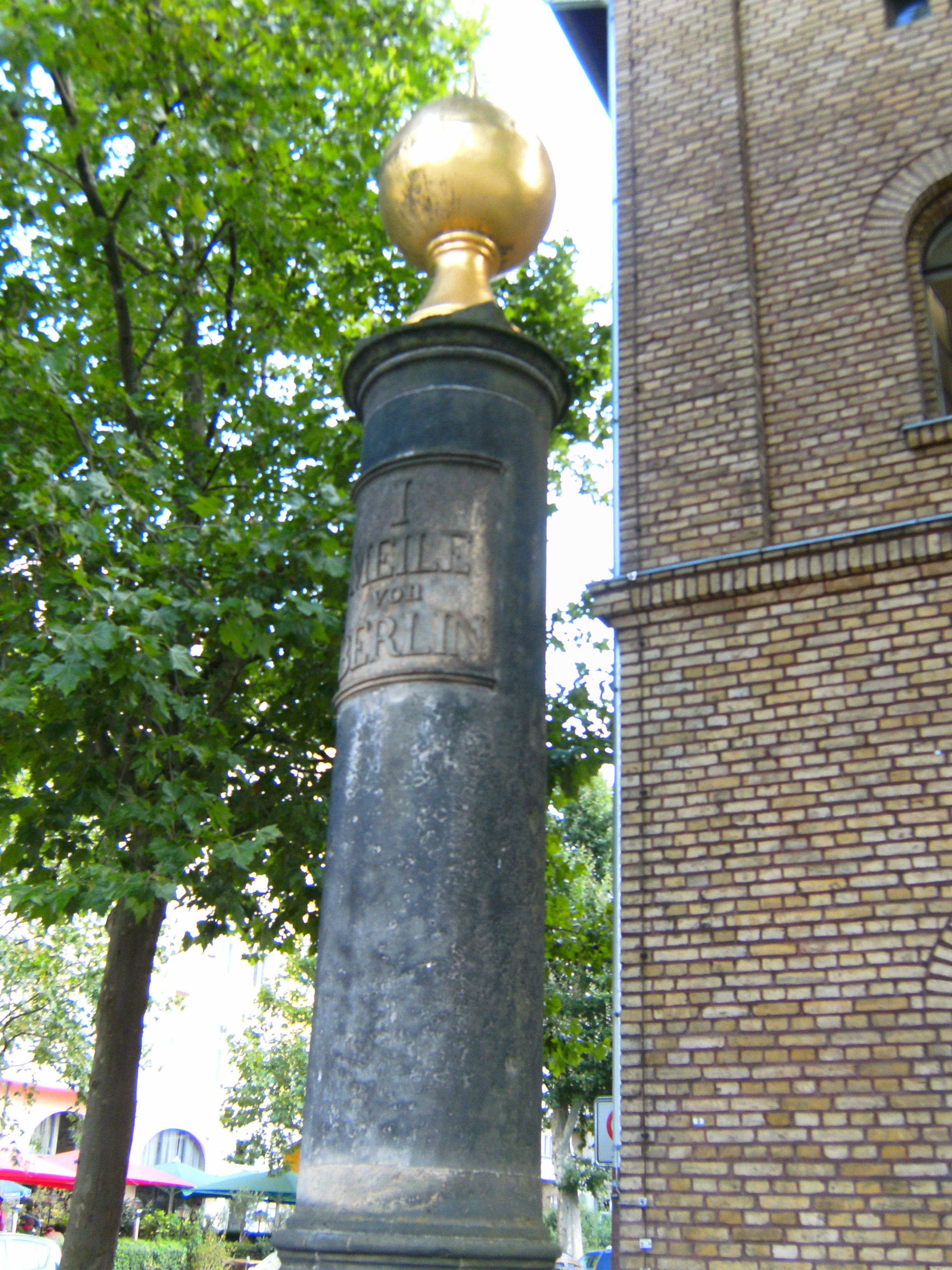 Berlin-Charlottenburg, Spandauer Damm (before number 7): milestone in Berlin.